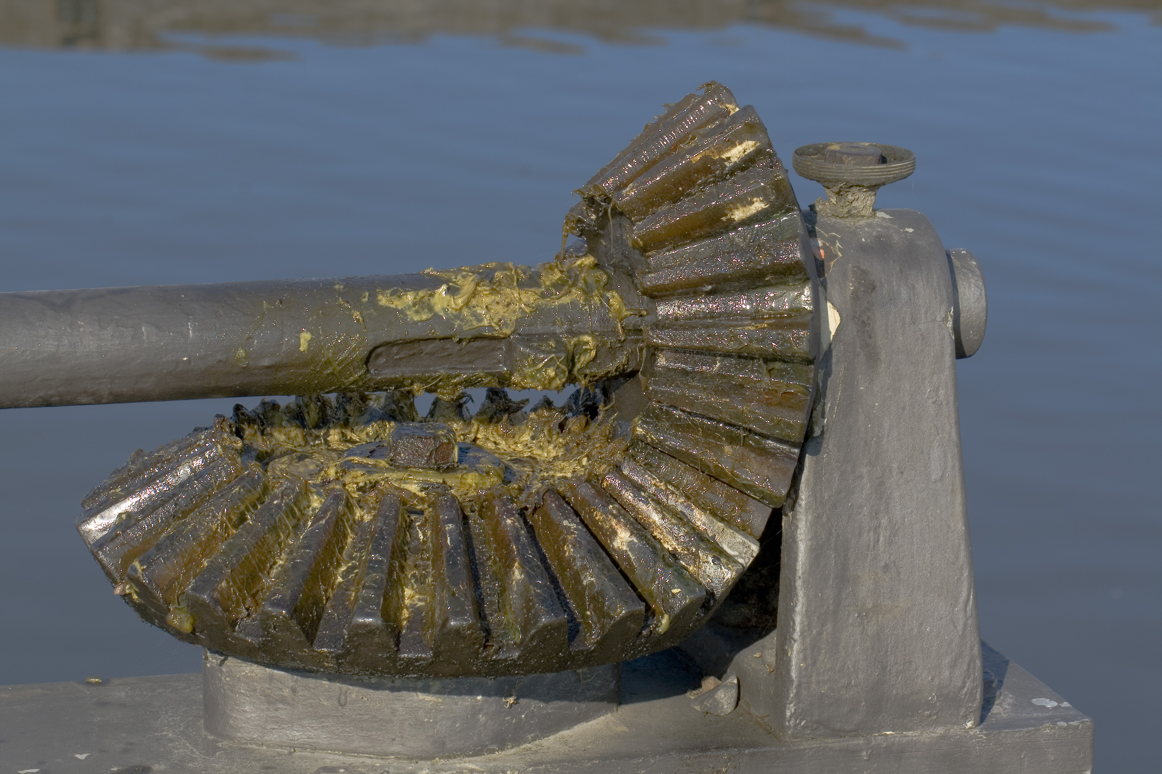 Bevel gear, Nymphenburg, Munich, Germany